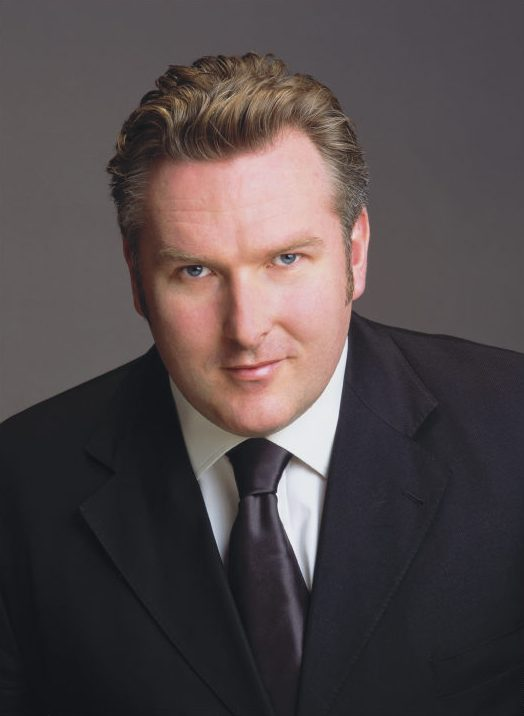 New Zealand Tenor Simon O'Neill - author query self portrait